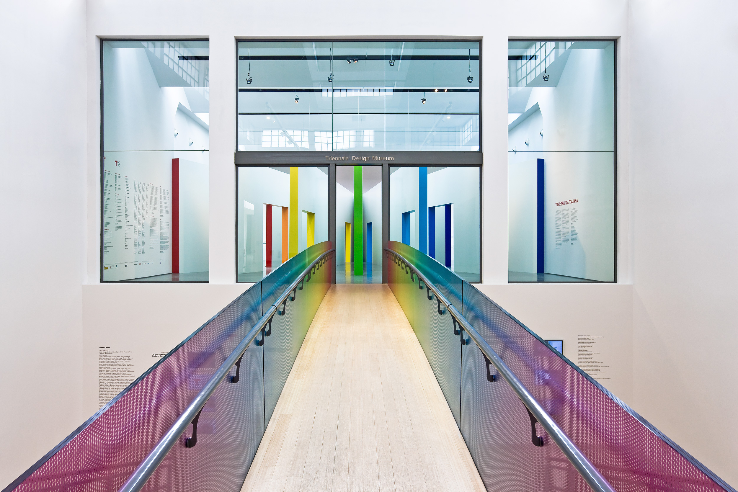 Triennale Design Museum